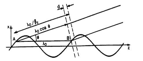 Undulator_constructive_interference.png